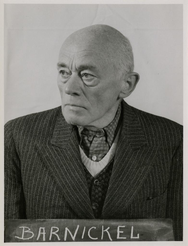 Paul Barnickel (1885-1966) was Senior Public Prosecutor of the People's Court. during the Second World War. This photograph of Barnickel (probably as a defendant during the Nurmeberg Trials No. III - the Justice Case) was taken by US Army photographers on behalf of the Office of the U.S. Chief of Counsel for the Prosecution of Axis Criminality (OUSCCPAC, May 1945 - Oct. 1946) or its successor organization, the Office of Chief of Counsel for War Crimes (OCCWC, Oct. 1946 - June 1949).